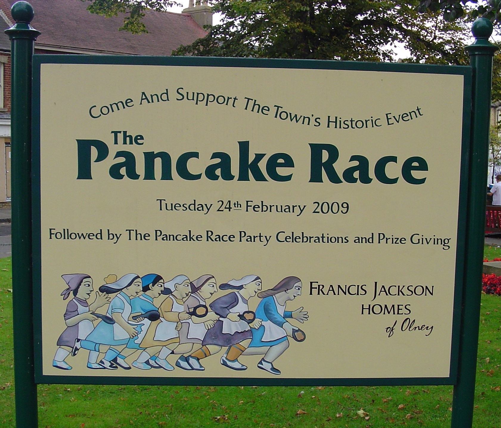 Signpoist in Olney about Pancake Race